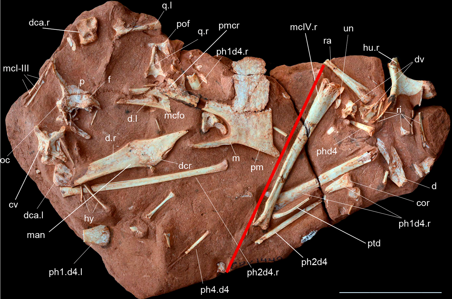 Holotype (CP.V 1449 left) and one paratype (CP.V 2003, right) of Caiuajara dobruskii gen. et sp. nov. separated by a red line, showing skull and postcranial elements. Scale bar equals 100: cor, coracoid; cv, cervical vertebra; d, dentary; dca, distal carpal series; dcr, dentary crest; f, frontal; hu, humerus; hy, hyoid bone; l, left; man, mandible; mcfo, meckelian fossa; mcI-III, metacarpal I–III; mcIV, metacarpal IV; oc, occipital condyle; p, parietal; pmcr, premaxillary crest; ph1d4, first phalanx of manual digit IV; ph2d4, second phalanx of manual digit IV; ph4d4, forth phalanx of manual digit IV; pof, postfrontal; ptd, pteroid; q, quadrate; r, right; ra, radius; ri, rib; un, ungueal.